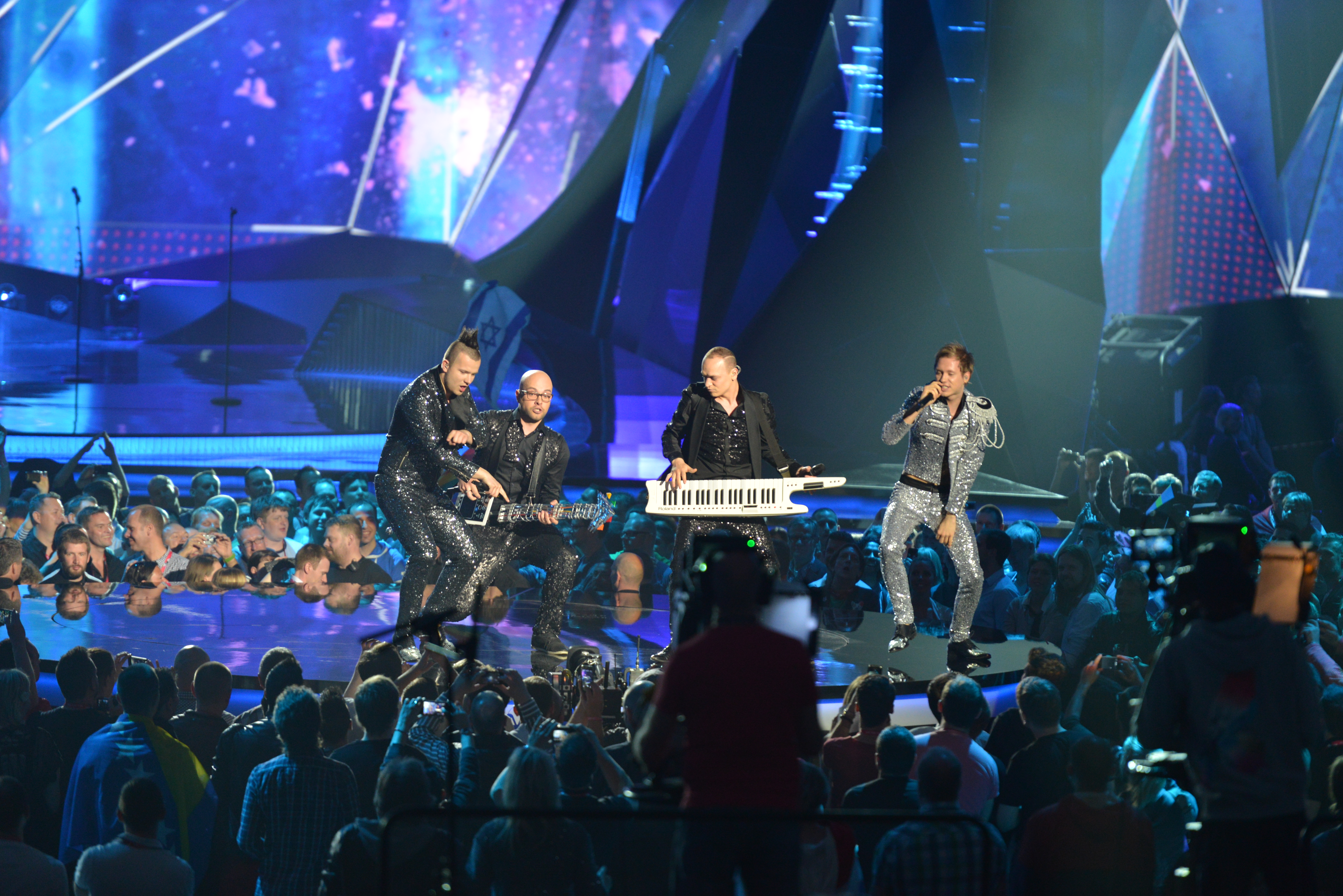 PeR representing Latvia with the song "Here We Go" during the second dress rehearsal of the second semi final of the Eurovision Song Contest 2013 in Malmö. (Help translate this text)